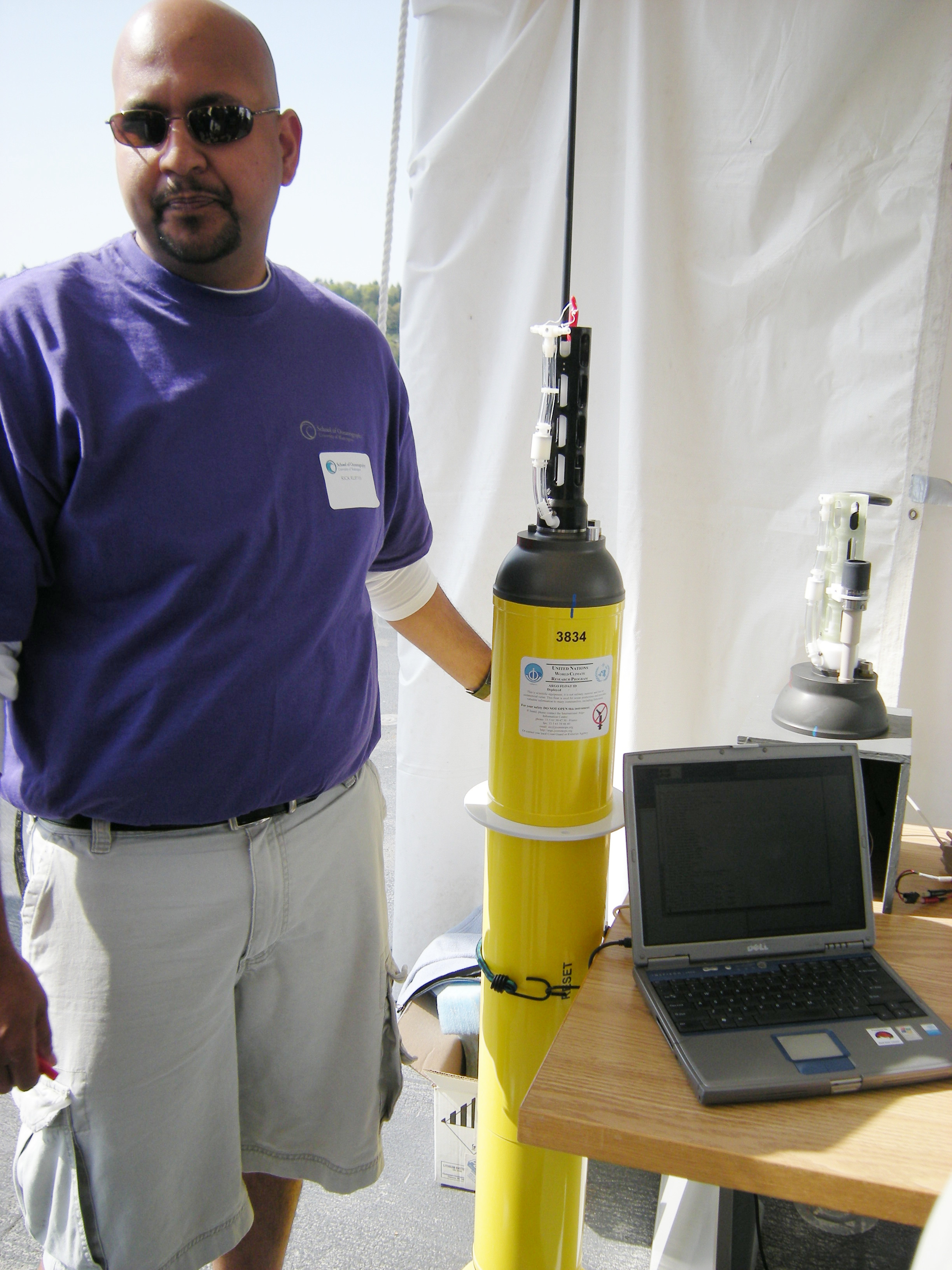 Argo float aboard the the research vessel RV Thomas G. Thompson, photographed at its dock at the University of Washington, Seattle, Washington, USA.